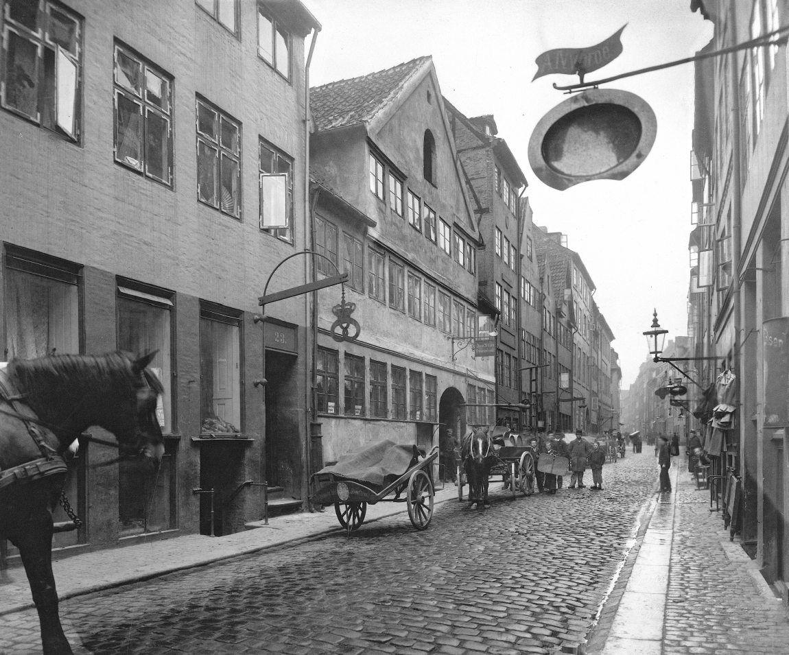 Vognmagergade 25 in Copenhagen, Denmark